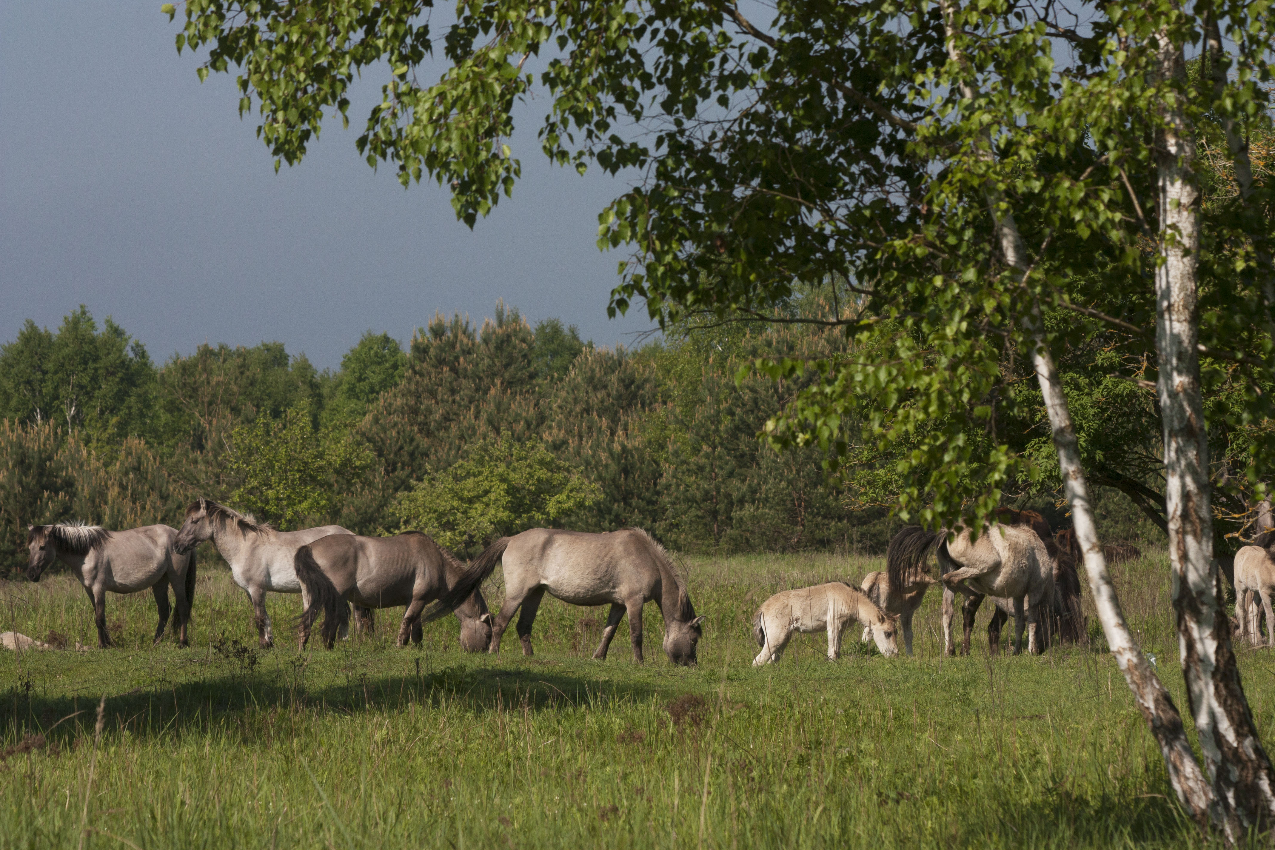 Koniks in the nature reserve "Oranienbaumer Heide" (Saxony-Anhalt)